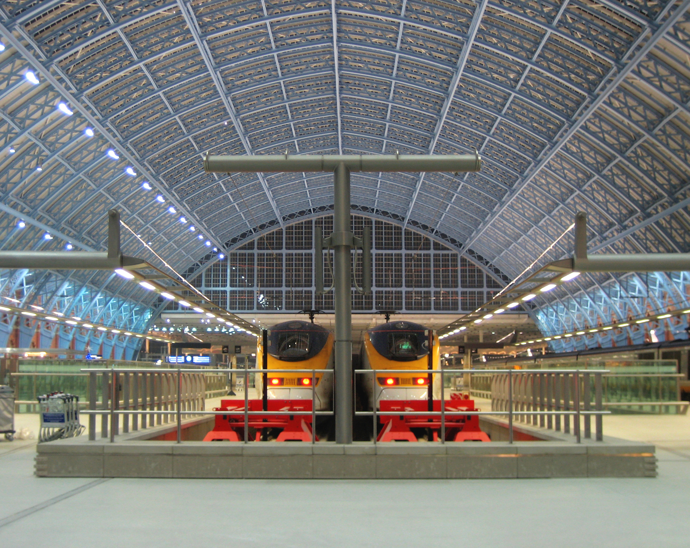 Eurostar trains in the renovated St Pancras Station, London. 3 exposure HDR image taken on 3rd Jan 2008, in a quiet moment between trains!